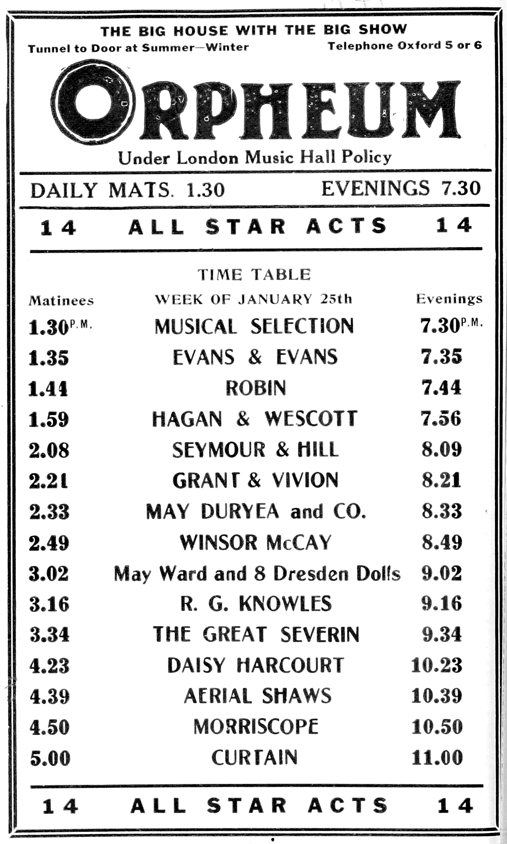 Advertisement for the Orpheum Theatre, Boston